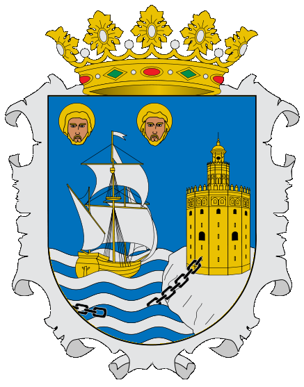 City of Santander, Spain Coat of arms (Official version)